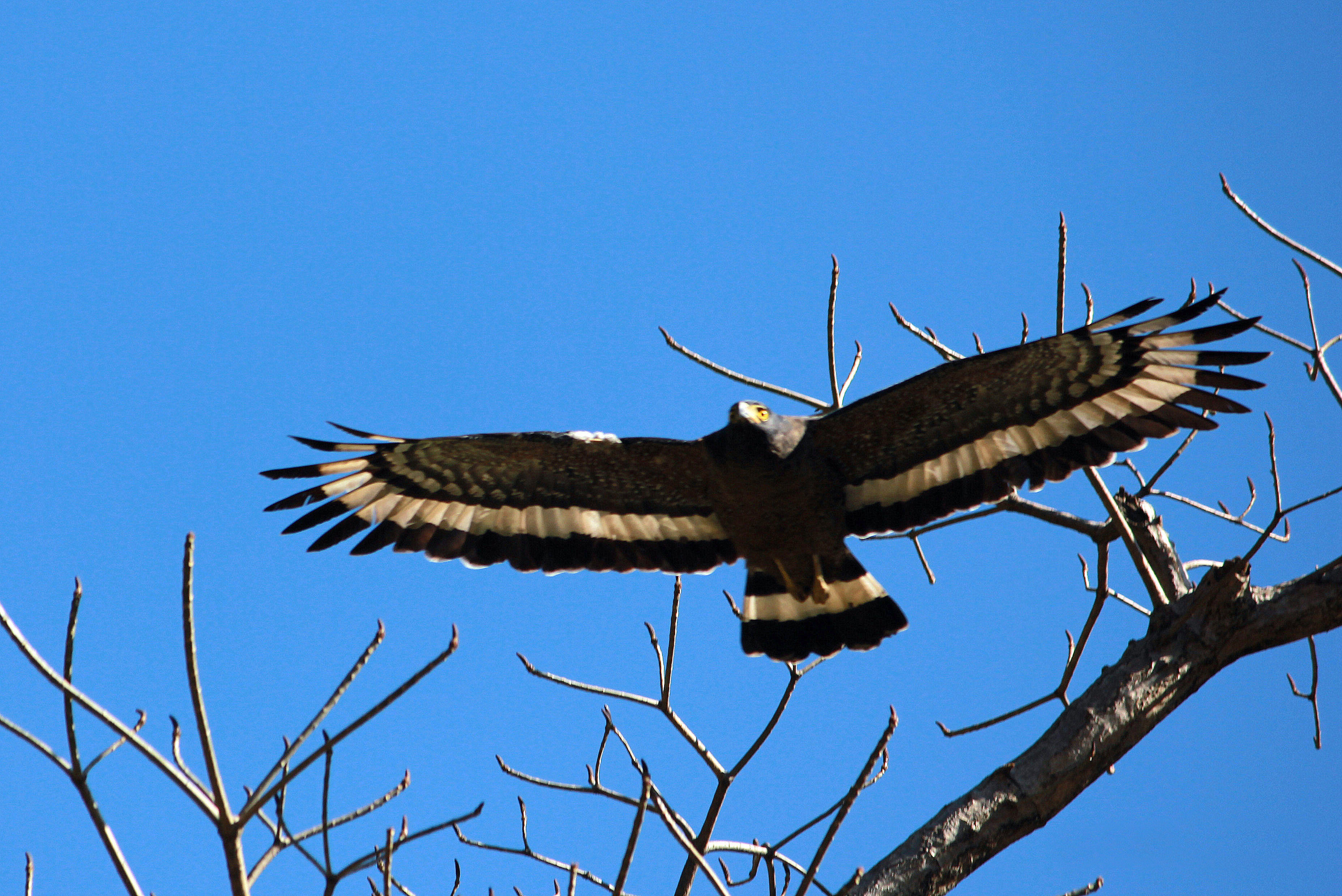 Underside feather structure of Crested Serpent Eagle Spilornis cheela in flight, Dehradun